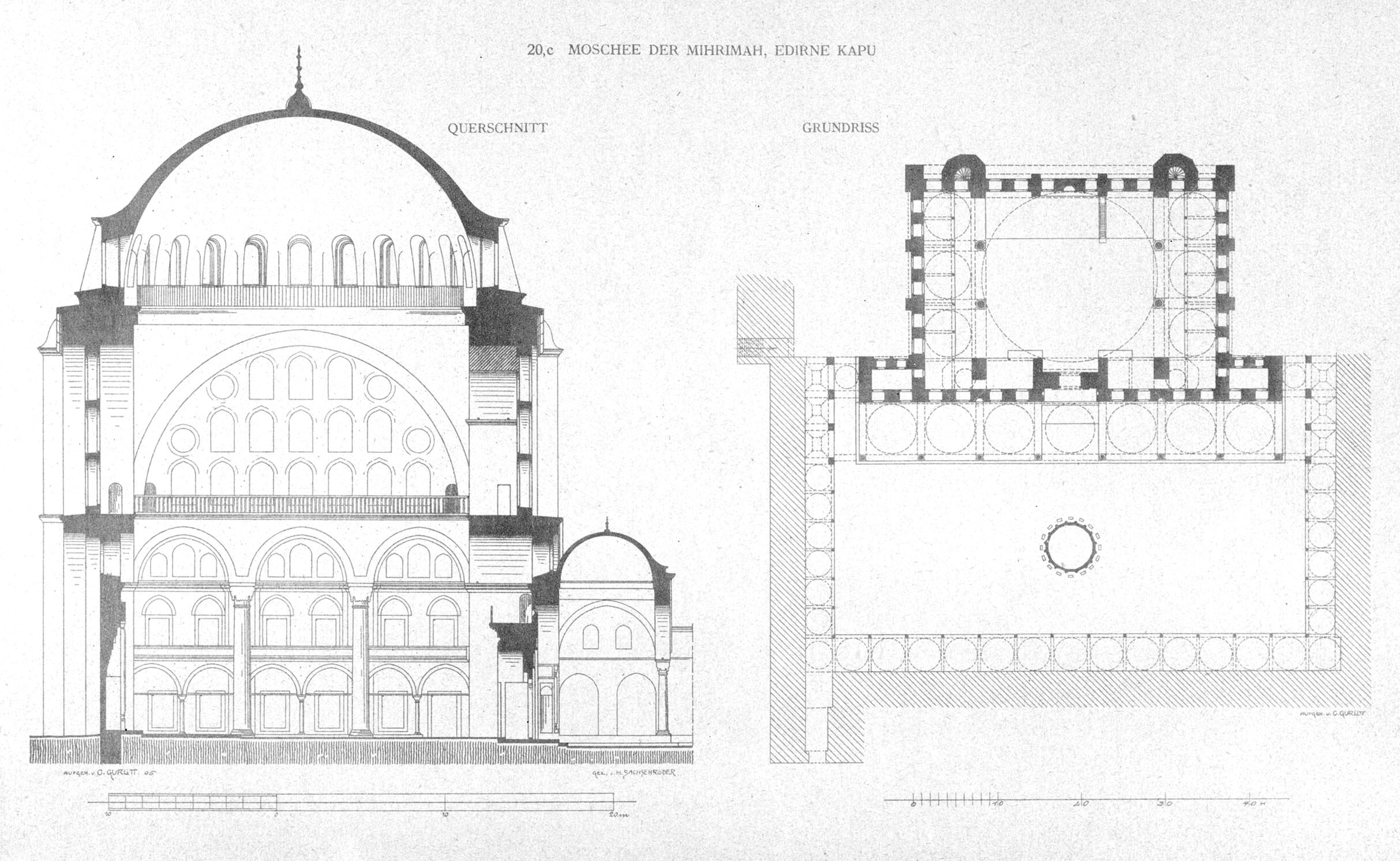 Cross section and plan of the Mihrimah Sultan Mosque, Edirnekapı neighbourhood, Istanbul